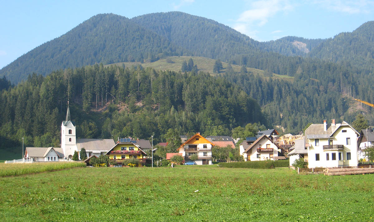 The village of Podkoren.